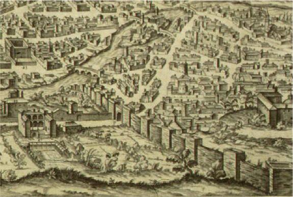 Section of a map of Rome showing the Porta Settimiana gate of the Aurelian Wall.